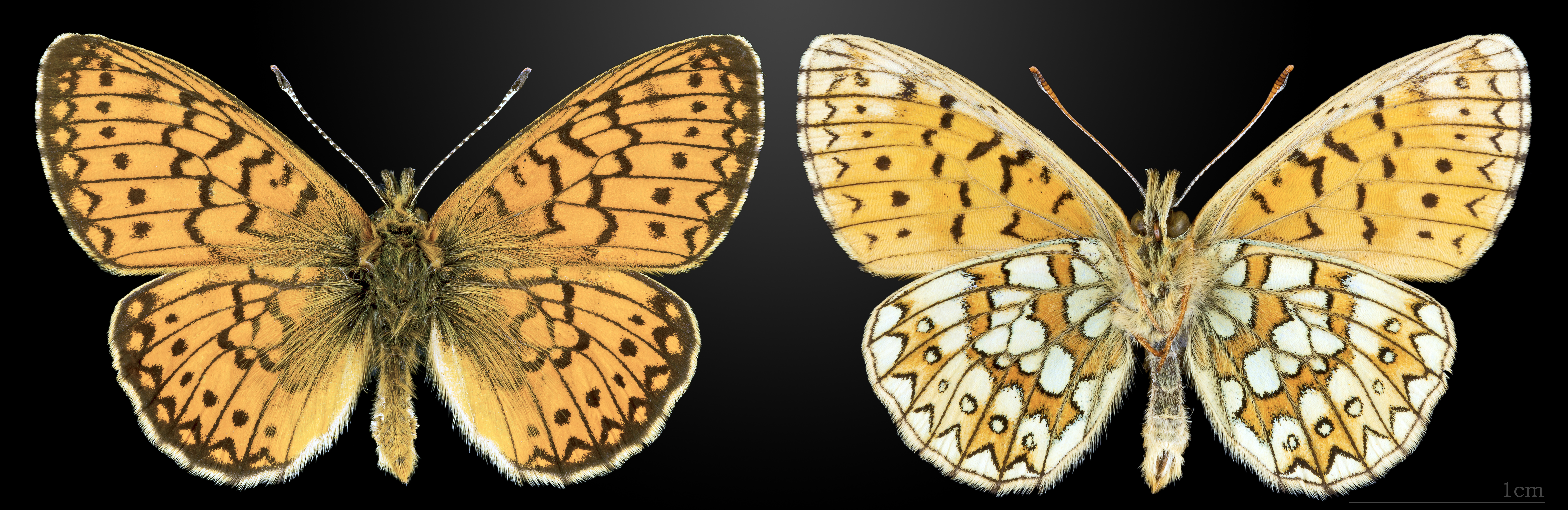 Ocellate Bog Fritillary - Two views of same specimen Locality: Porté-Puymorens, Pyrénées-Orientales, France